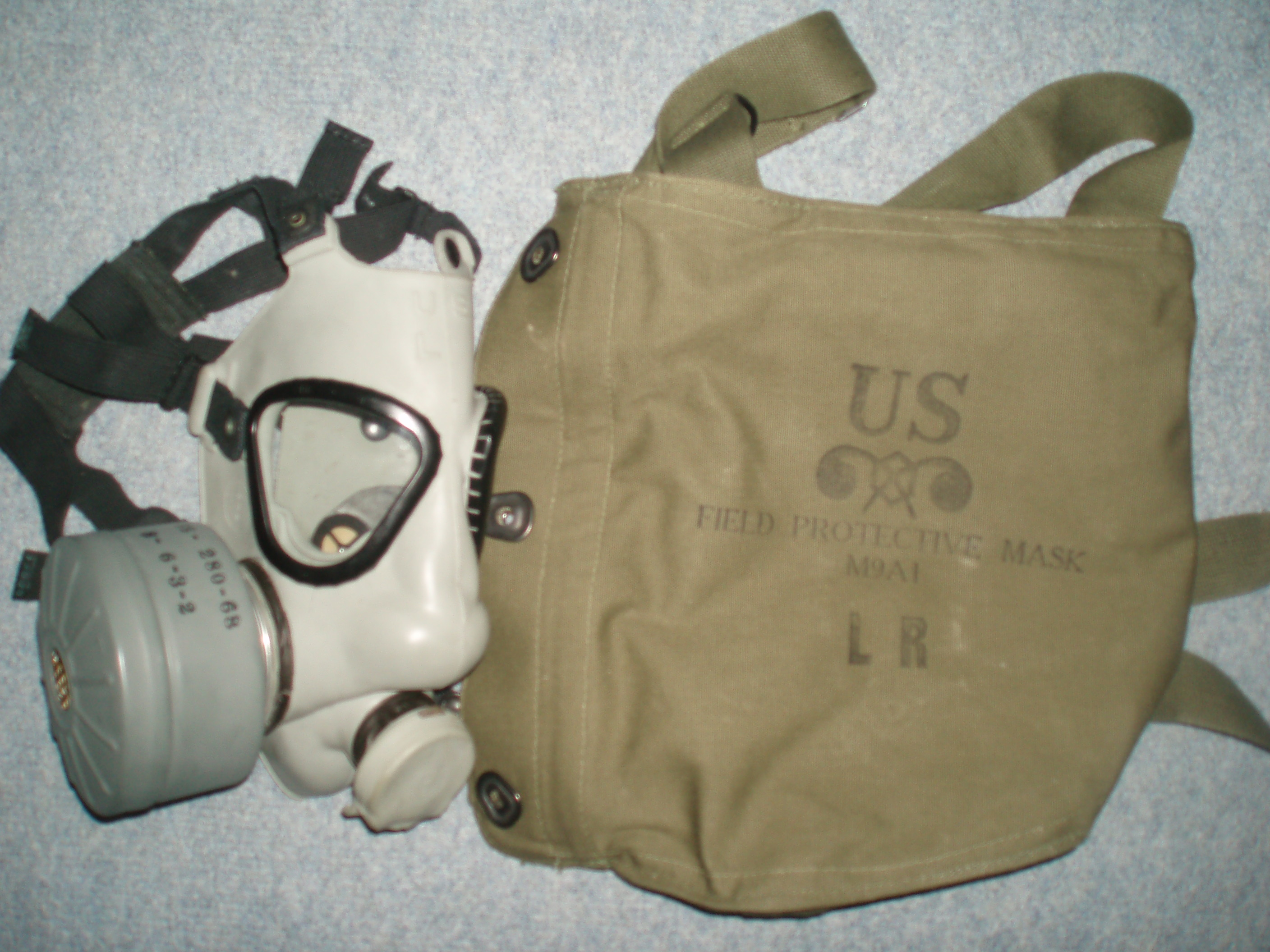 US-gas mask M9A1 with bag